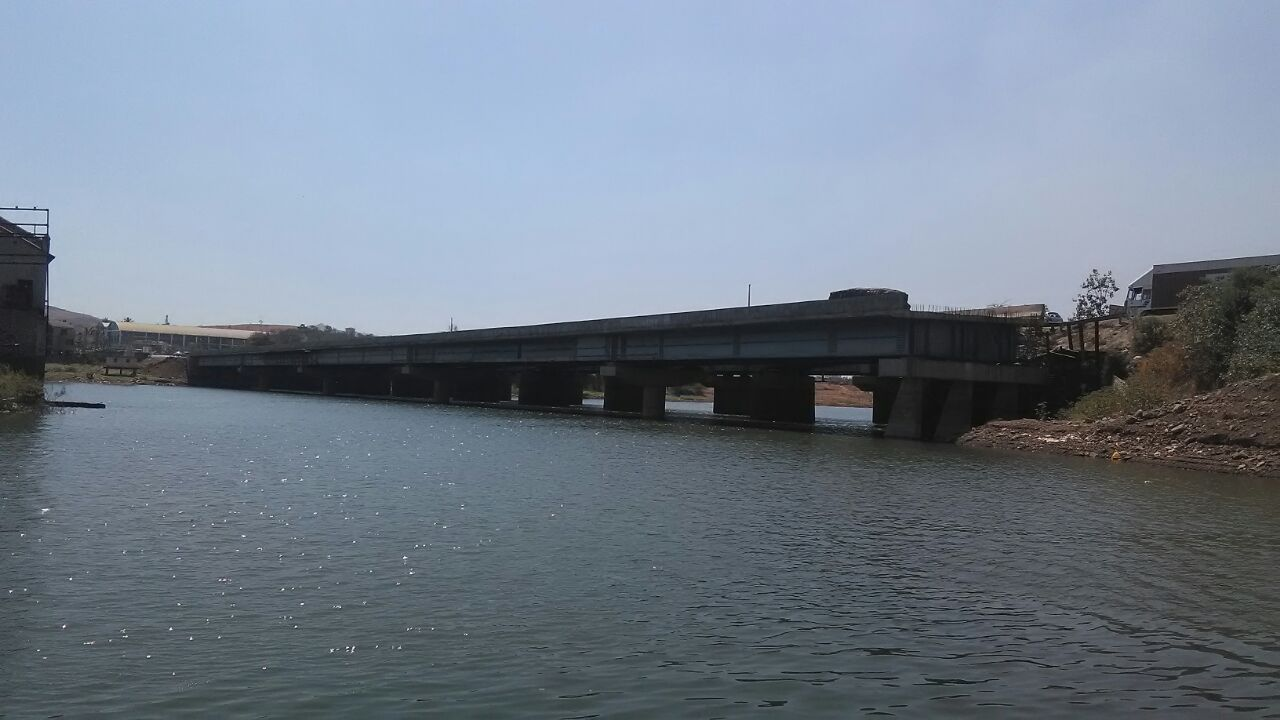 नीरा नदी पात्र